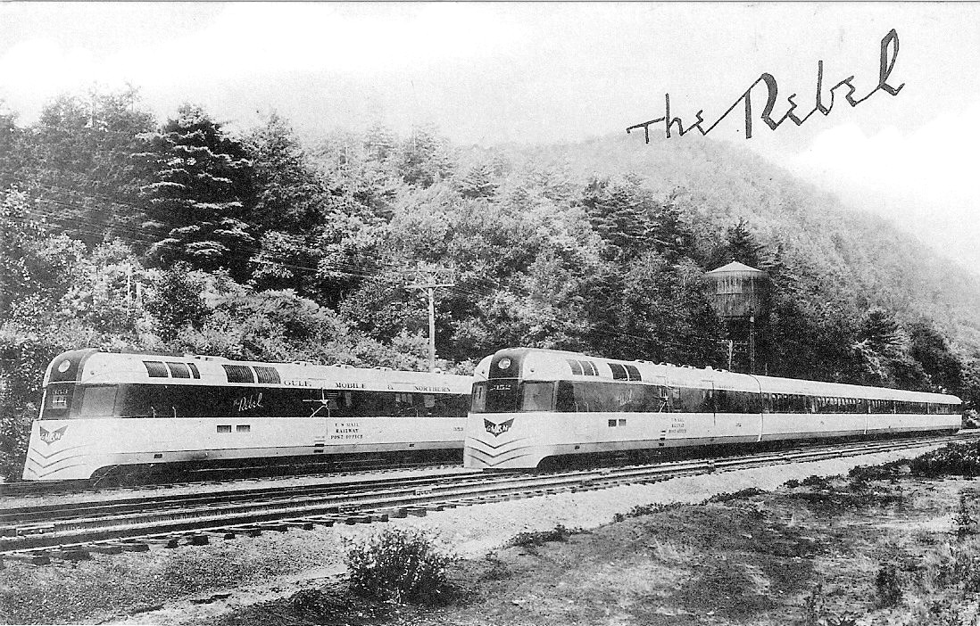 Postcard photo of two of the streamlined Rebel trains that traveled between Jackson, Mississippi and Jackson, Tennessee.